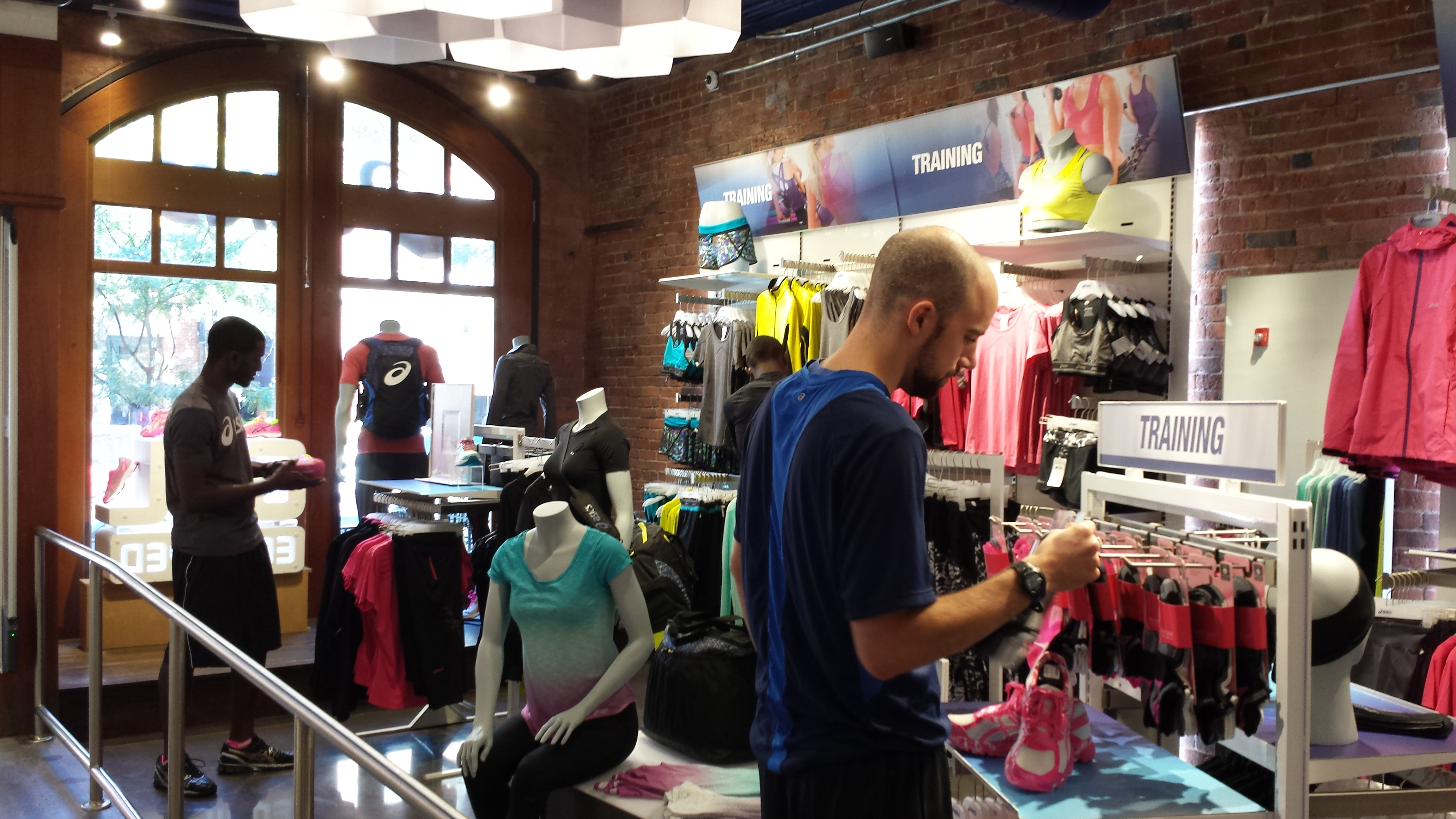 The inside of the ASICS store on Nebury Street in Boston's Back Bay. Employee Brian Henry looks at merchandise.